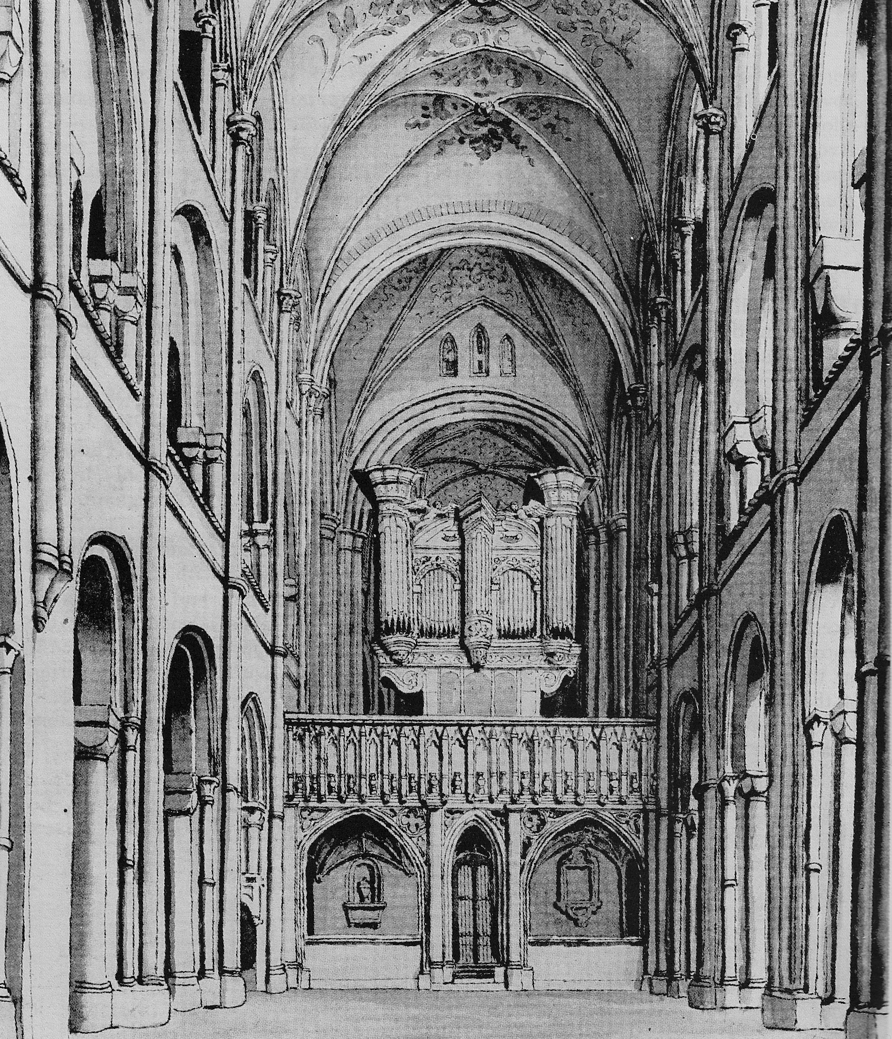 The nave of Chichester Cathedral, from a watercolour in the Victoria and Albert Museum, London.